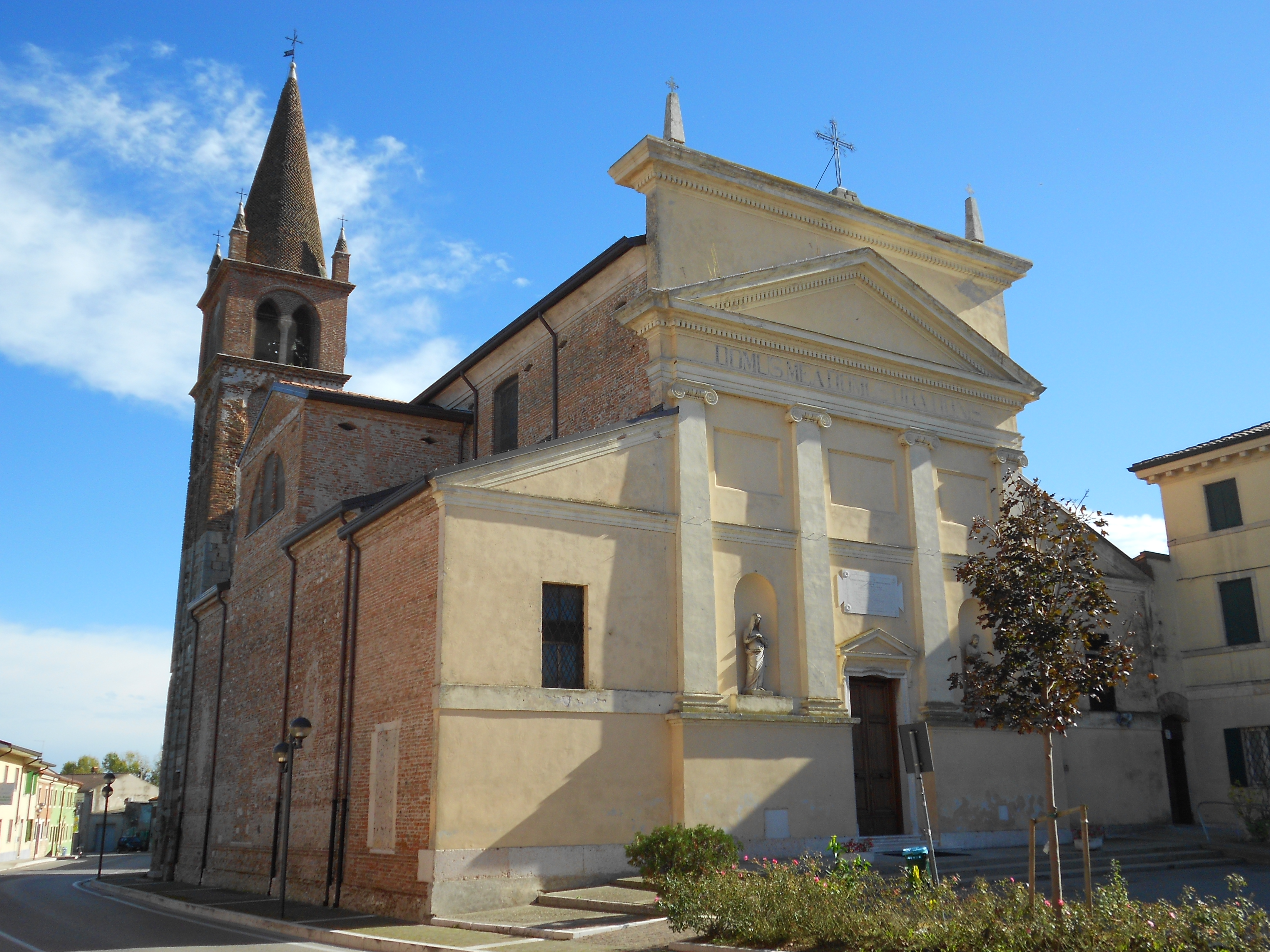 church, Oppeano